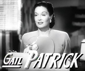 Cropped screenshot of Gail Patrick from the trailer for the film We Were Dancing